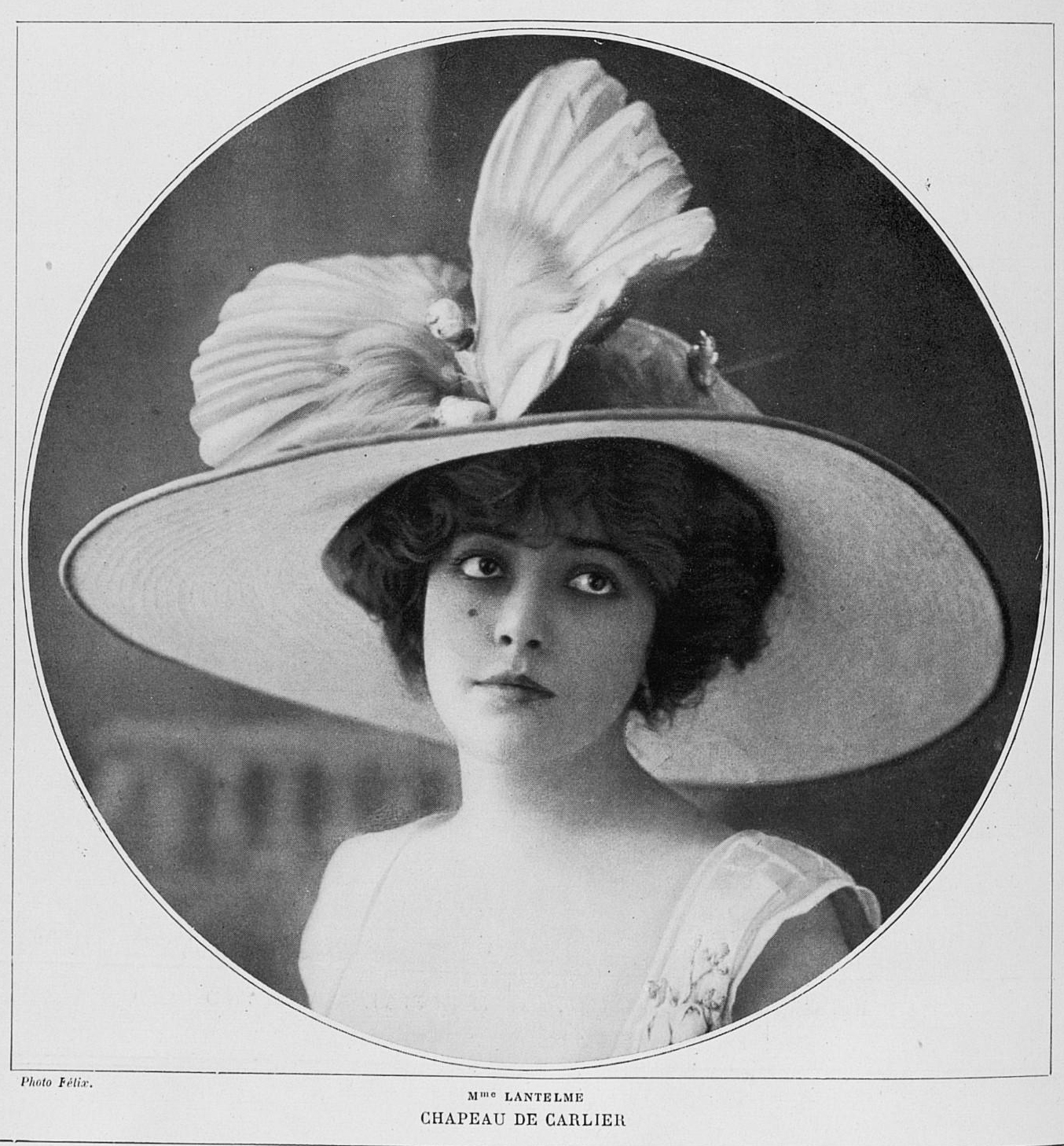 alrededor de 1900